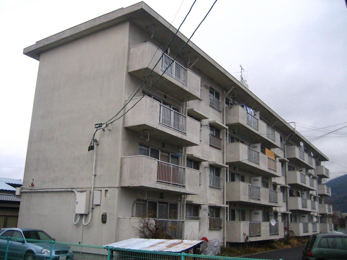 A picture of a Danchi building. Picture was taken in Aizuwakamatsu, Fukushima Prefecture, Japan with a Canon Power Shot SD450 Digital Elph camera and modified using a Paint Shop program on a laptop computer.